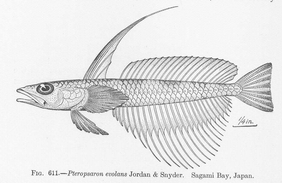 Pteropsaron evolans Jordan & Snyder. Sagami Bay, Japan Subject: Percophidae Tag: Fish